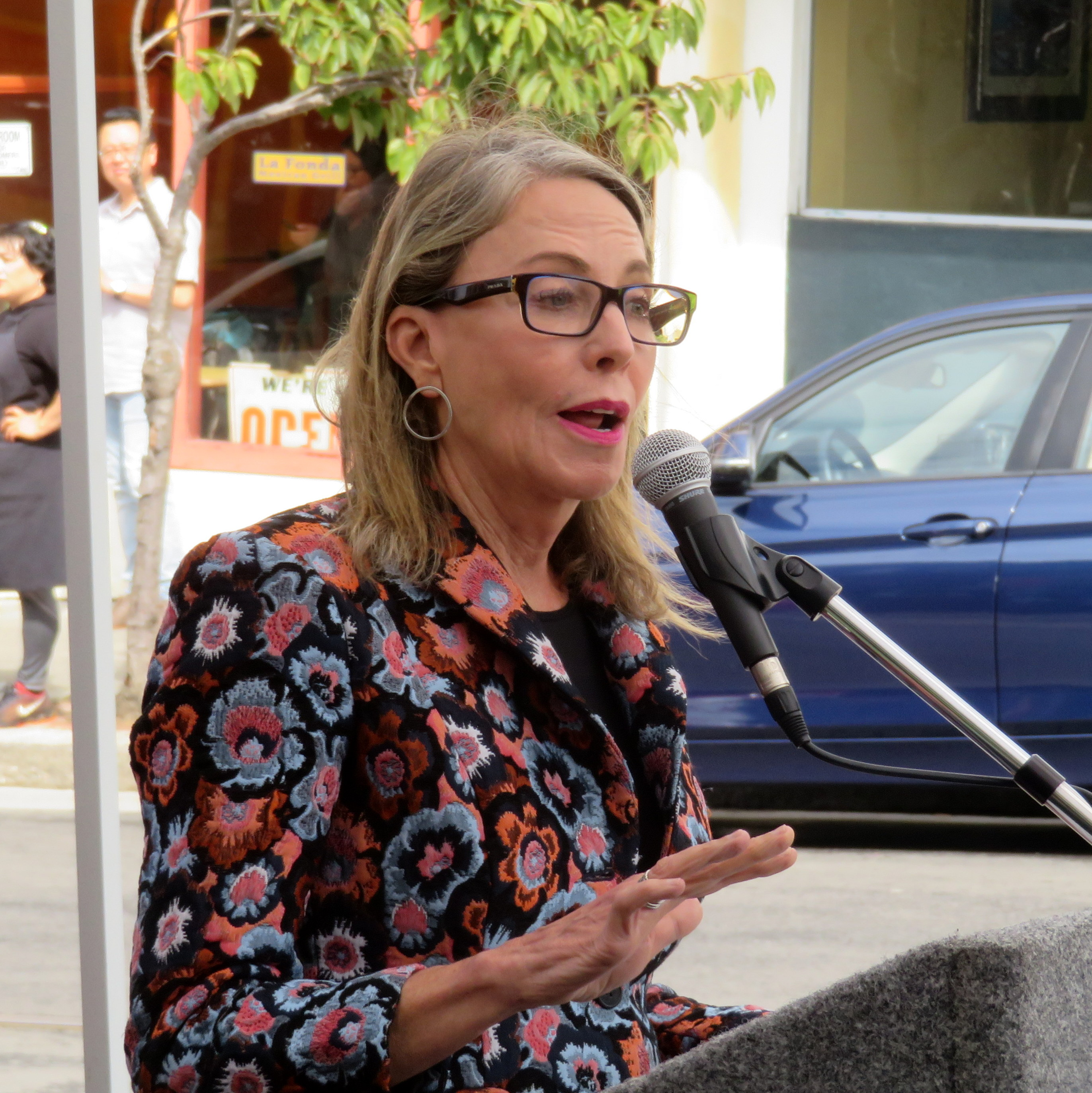 District 5 supervisor Vallie Brown speaking at the Inner Sunset Streetscape Project ribbon cutting in September 2019